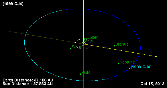 This diagram illustrates the orbit of the Cubewano 1999 OJ4.